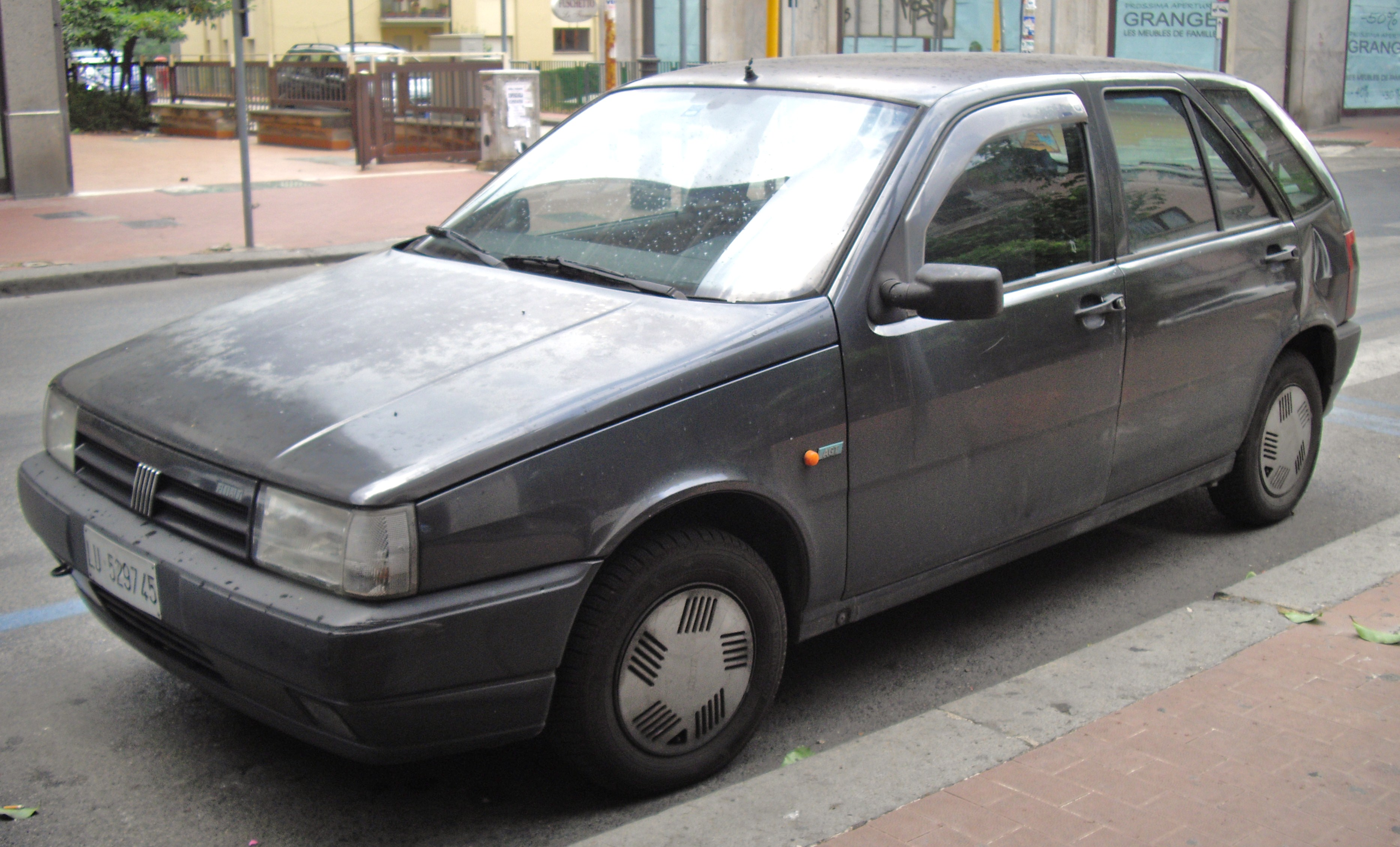 Fiat Tipo DGT front